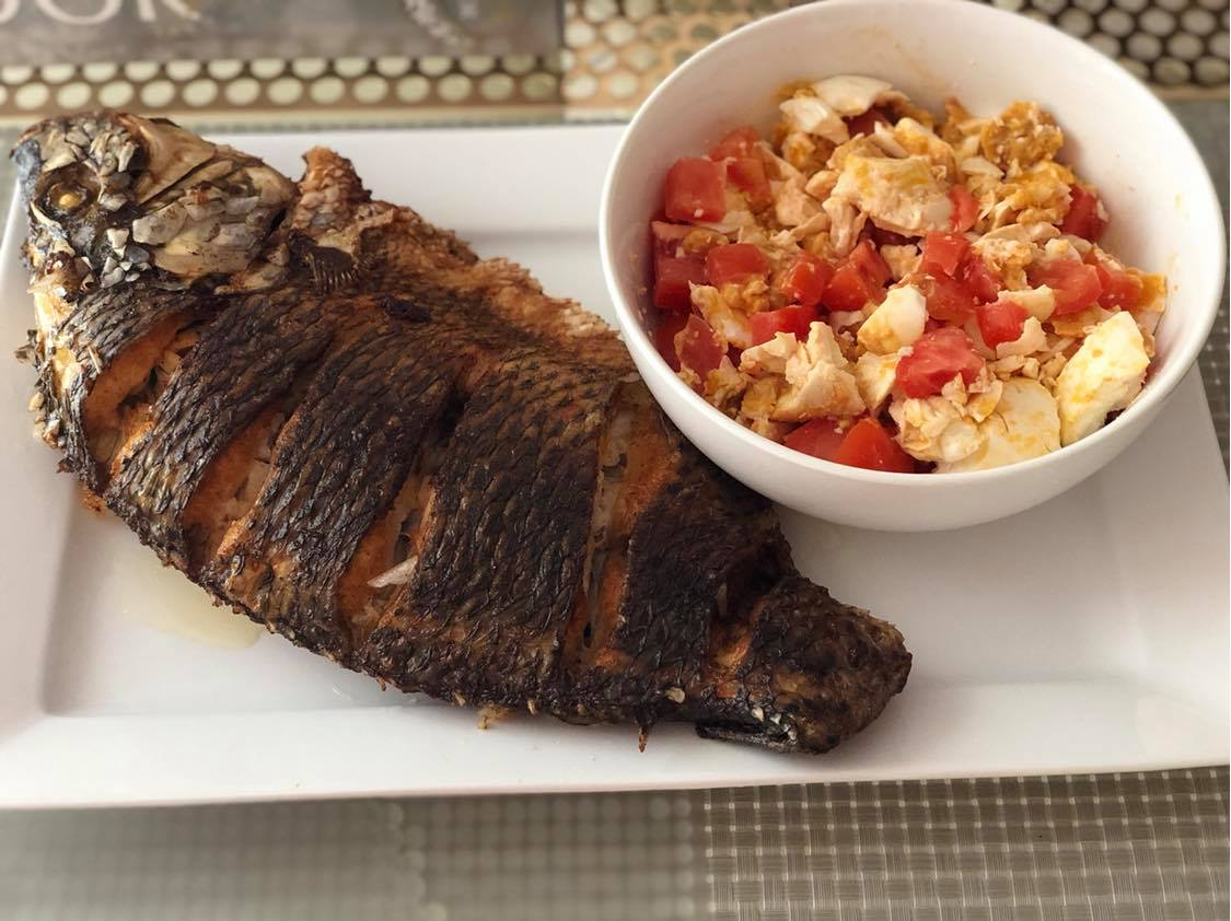 How a traditional Filipino dish is served